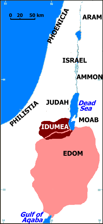 Map showing the approximate boundary of classical-age Idumea (in dark red) and the kingdom of Edom (in pink) at its largest extent, c. 600 BCE.